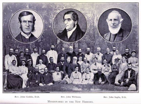 Photograph of the missionaries active in the New Hebrides in the late 1800s